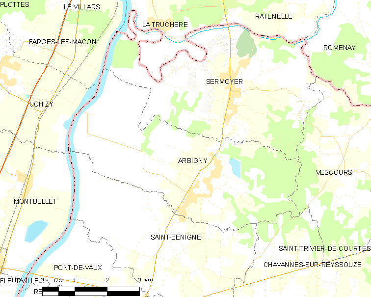 Map of French commune: Arbigny Map commune FR insee code 01016.png